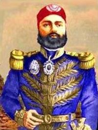 Portrait of Abbas Helmi I (1813-1854), wāli (viceroy) of Egypt, in military uniform.